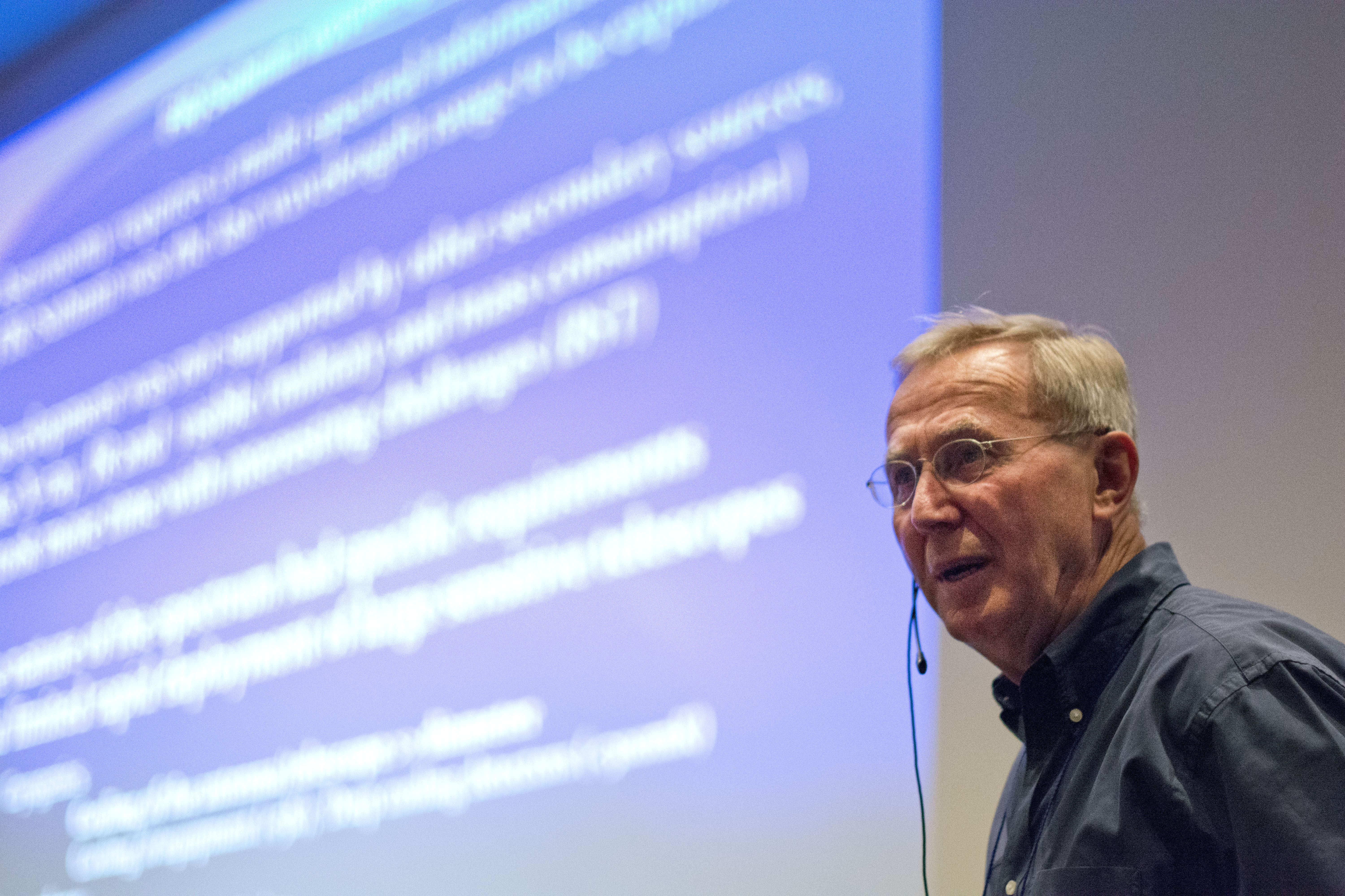 Thijs de Graauw | Far infrared and sub-millimeter astronomy: new pathways to heaven | International Conference on Cosmic Microwave Background (CMB2013)